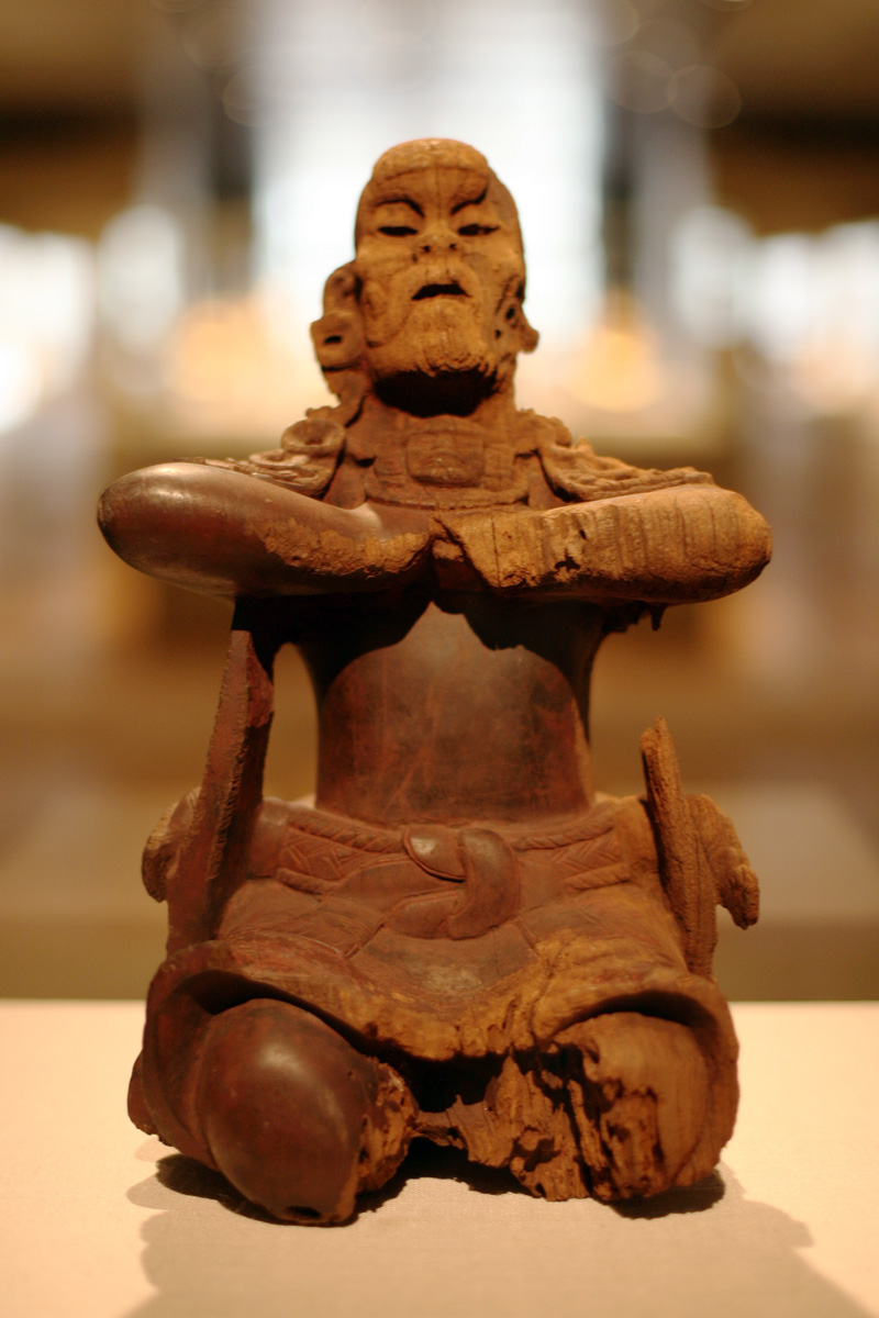 Mirror-Bearer, 6th century Mexico or Guatemala; Maya Wood, red hematite; H x W x D: 14 1/8 x 9 x 9in. (35.9 x 22.9 x 22.9cm) The Metropolitan Museum of Art, New York, The Michael C. Rockefeller Memorial Collection, Bequest of Nelson A. Rockefeller, 1979 (1979.206.1063) View at the Metropolitan Museum of Art website Wikipedia Loves Art at the Metropolitan Museum of Art This photo of item # 1979.206.1063 at the Metropolitan Museum of Art was contributed under the team name "shooting_brooklyn" as part of the Wikipedia Loves Art project in February 2009. Metropolitan Museum of Art The original photograph on Flickr was taken by shooting brooklyn—please add a comment to the original Flickr page whenever a use has been made on Wikipedia or another project. Project galleries on Flickr: this institution, this team